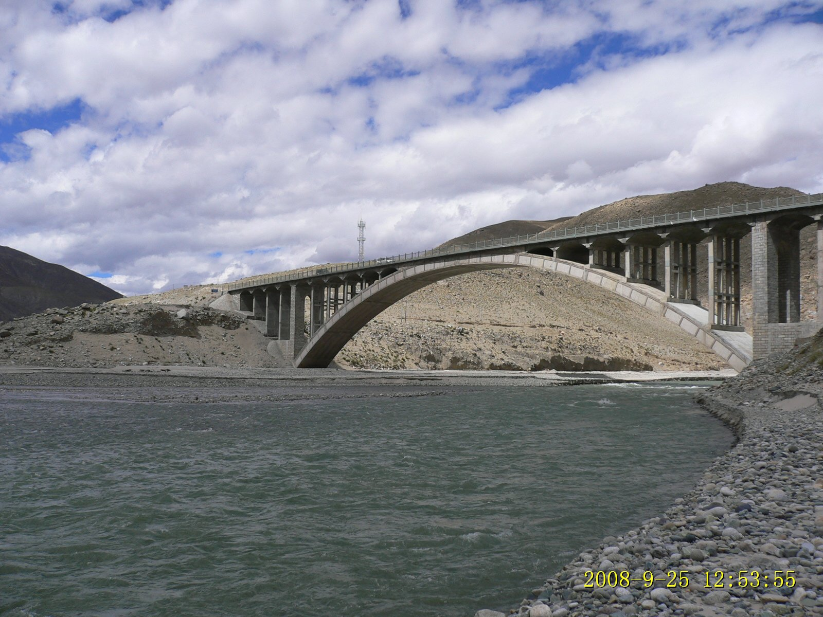 yaluzangbu river nimu bridge